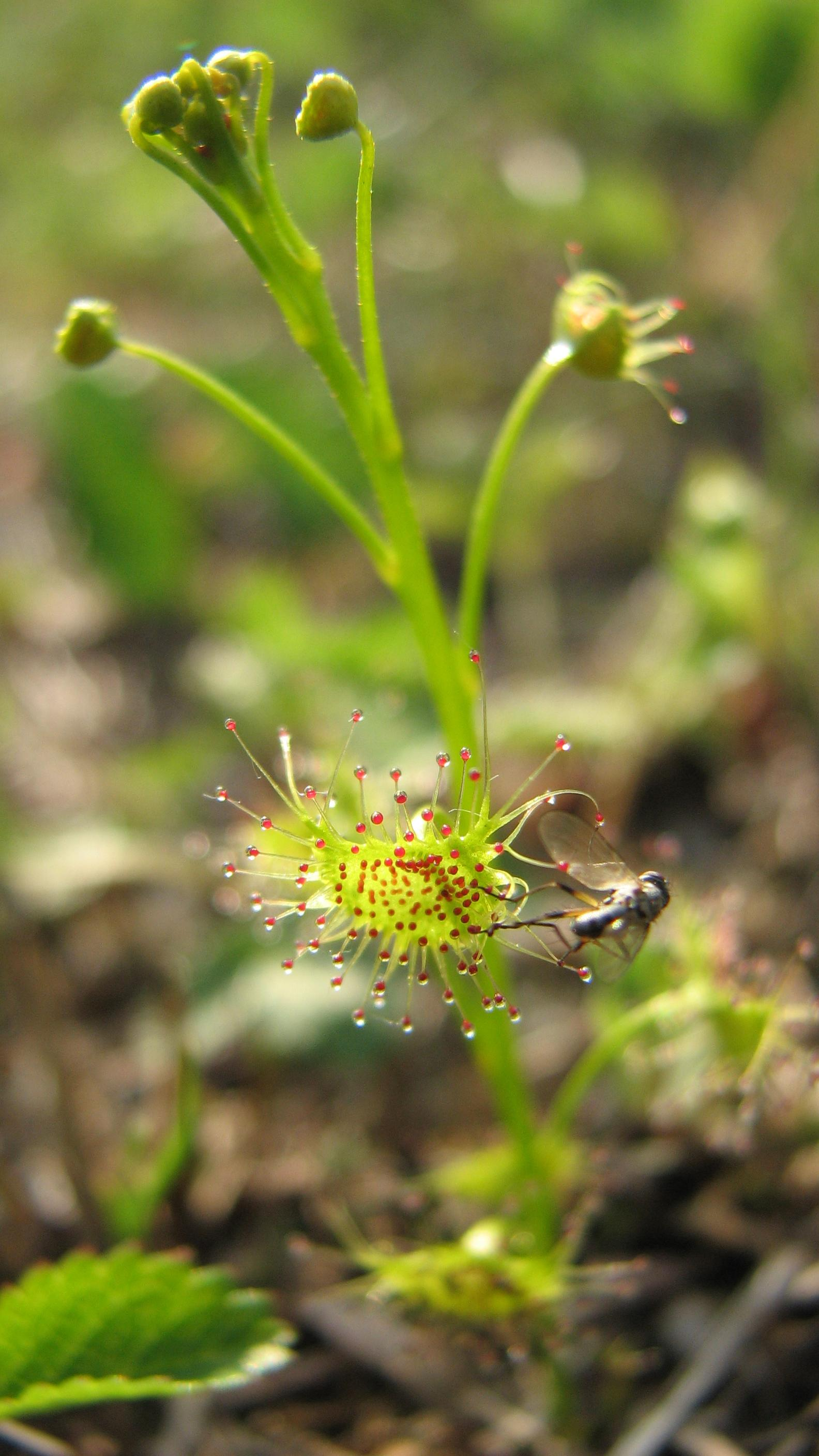 Drosera peltata leaves. (Naruto-Togane carnivorous plant colony)